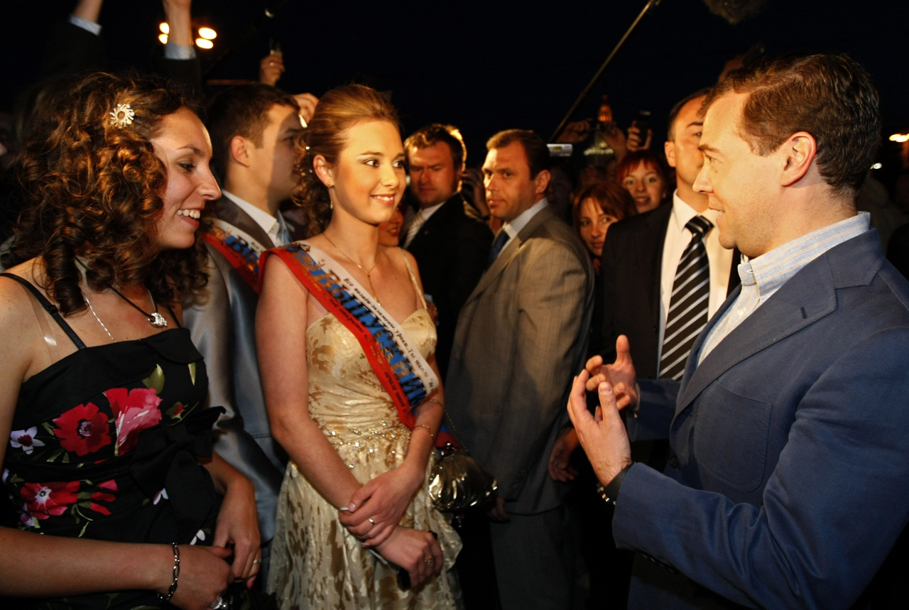 VOROBYOVY GORY, MOSCOW. With student graduates.